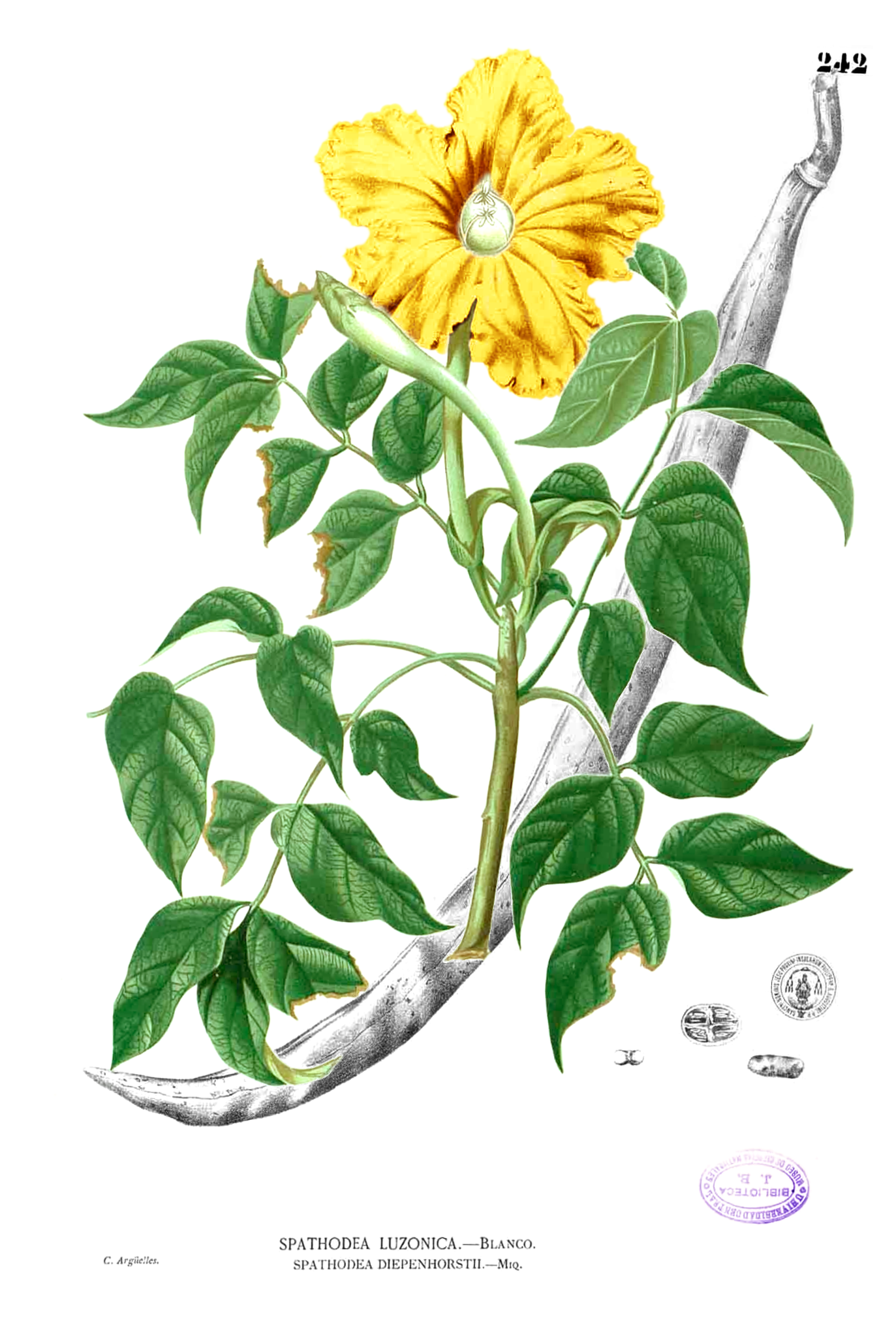 Plate from book